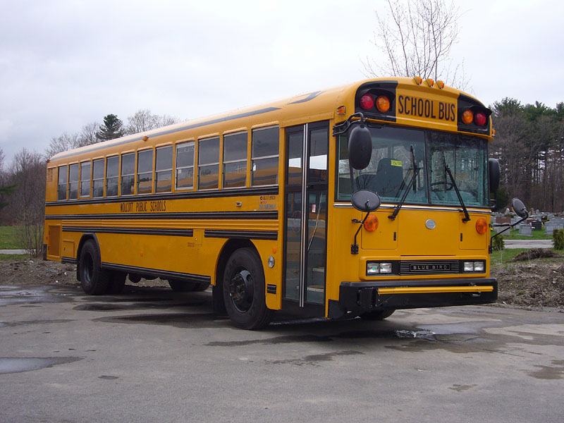 A Blue Bird "All American RE" school bus, owned and operated by Wolcott Public Schools.